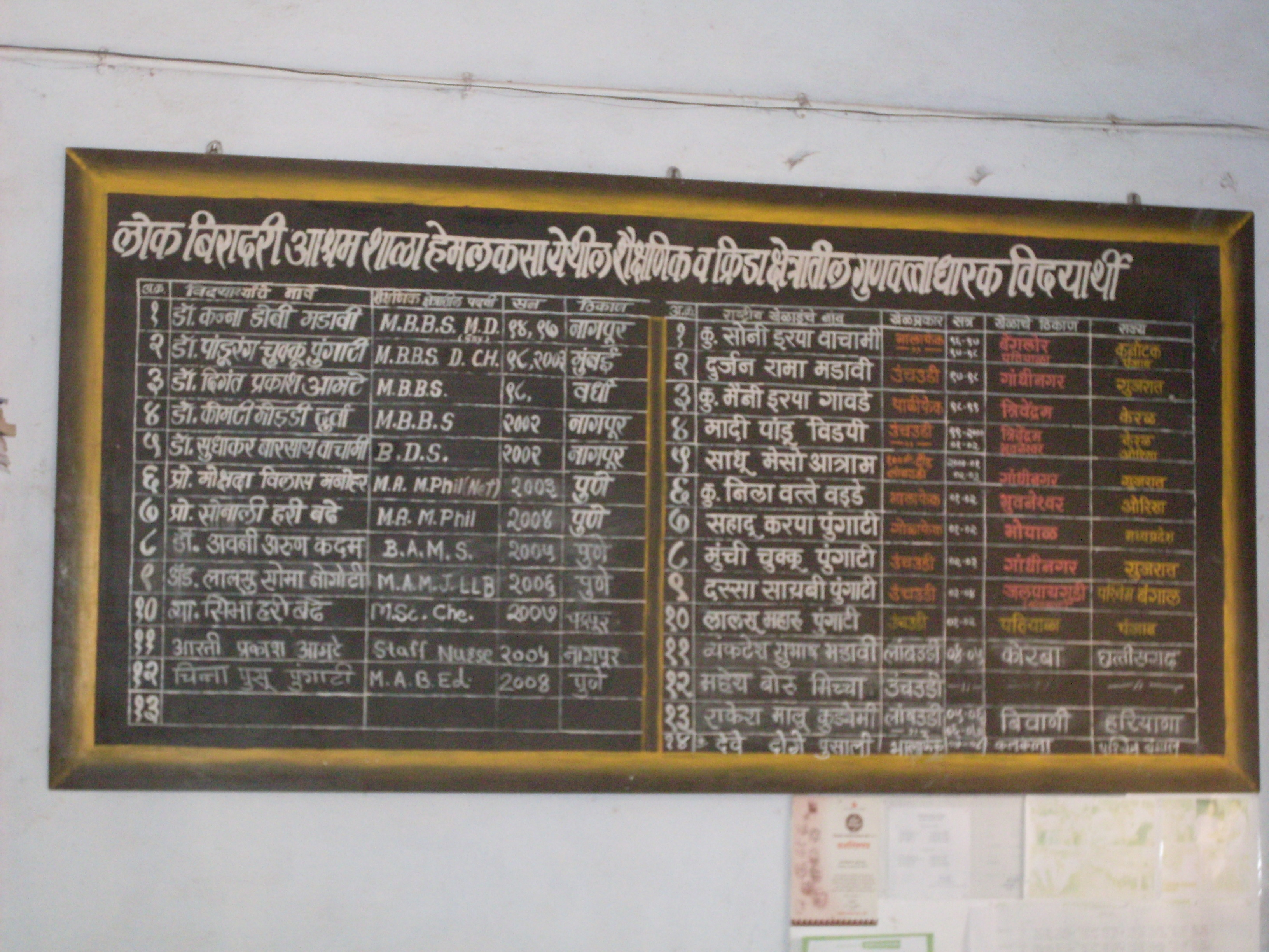 Lok Biradari Prakalp Ashram Shala hall of fame.